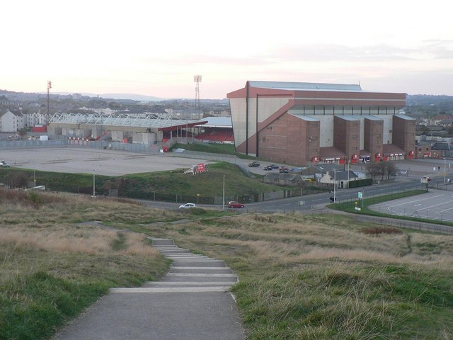 Aberdeen: Pittodrie Stadium The home of Aberdeen Football Club.